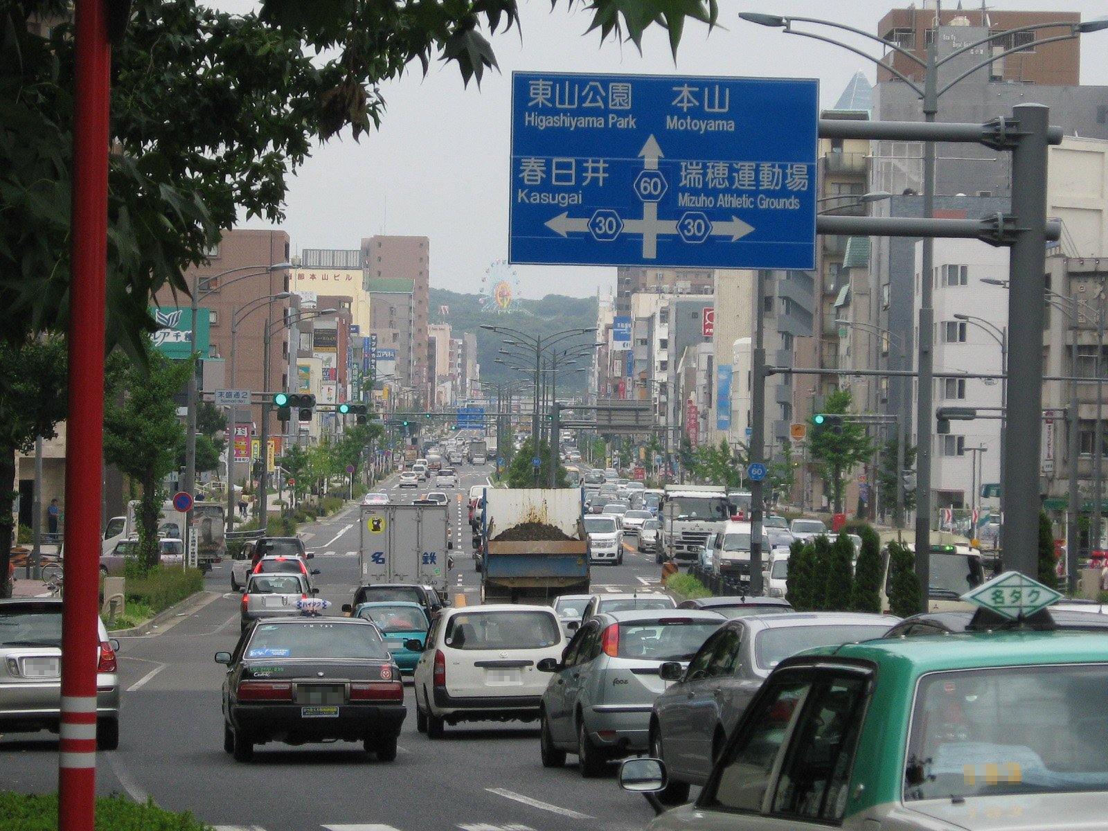 The Hirokoji-dori avenue in Chikusa-ku, Nagoya City, Japan